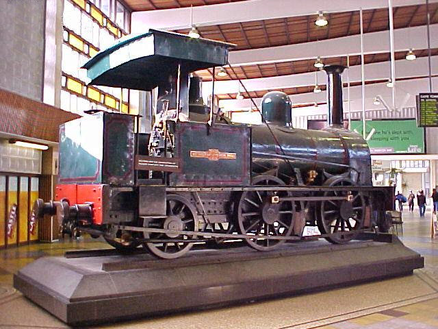 Cape Town Railway & Dock no. 9 (0-4-2WT)Builder's Number: R&W Hawthorn 162Location: Cape Town station